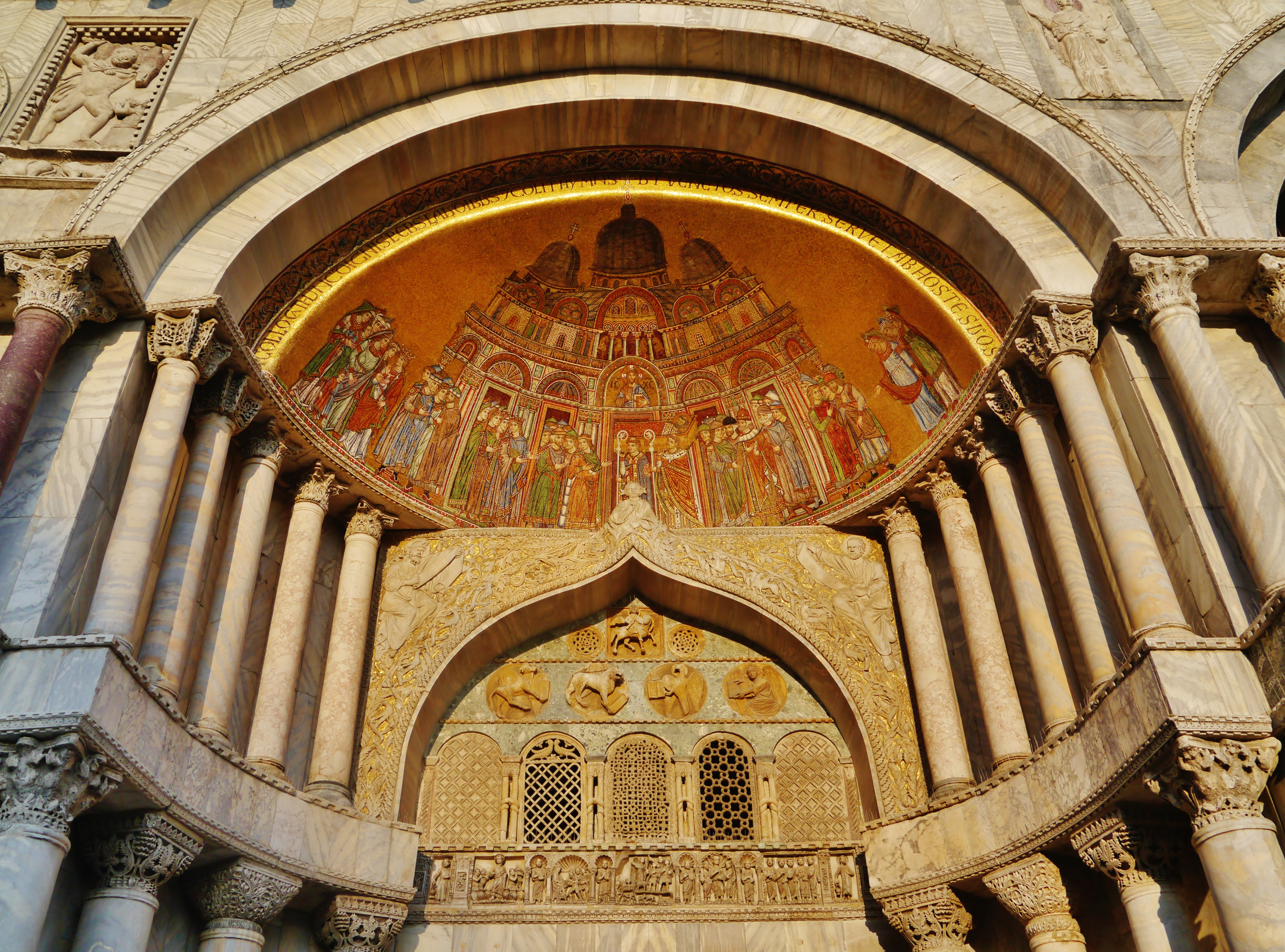 Portal Mosaic at the West Facade of St. Mark's Basilica, Venice, Metropolitan City of Venice, Region of Veneto, Italy